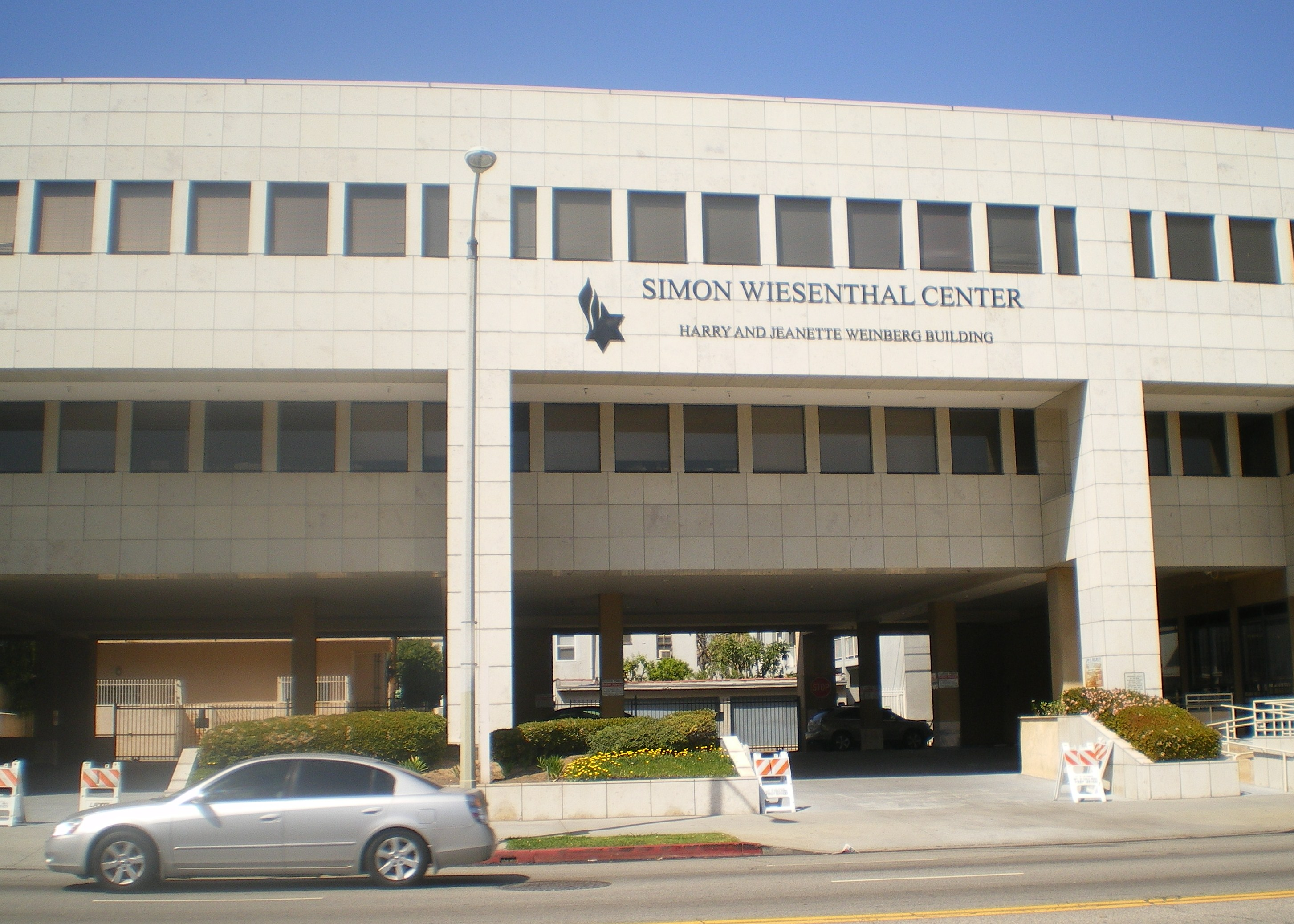 Simon Wiesenthal Center, Los Angeles